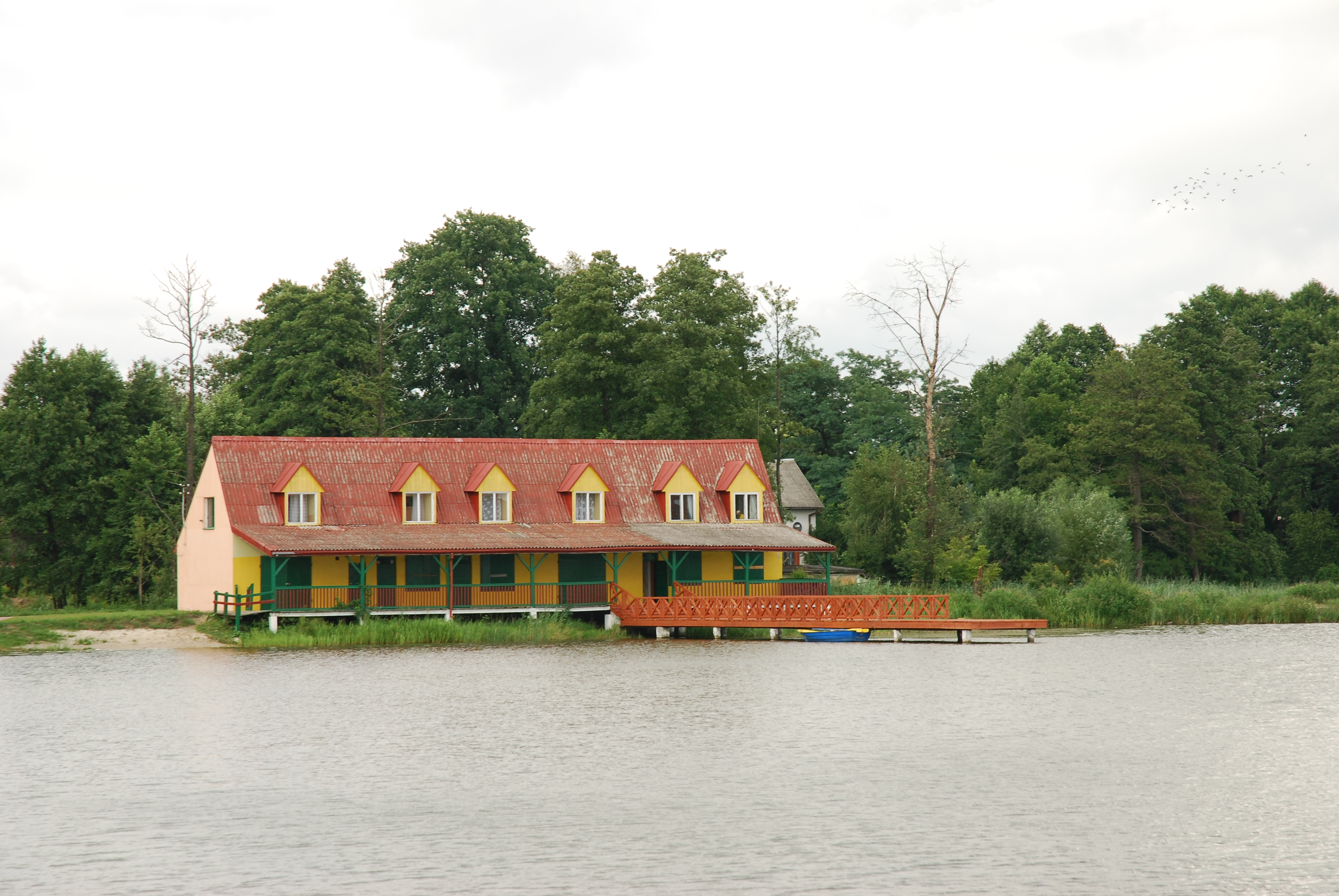 "Molo" in Zaklików.